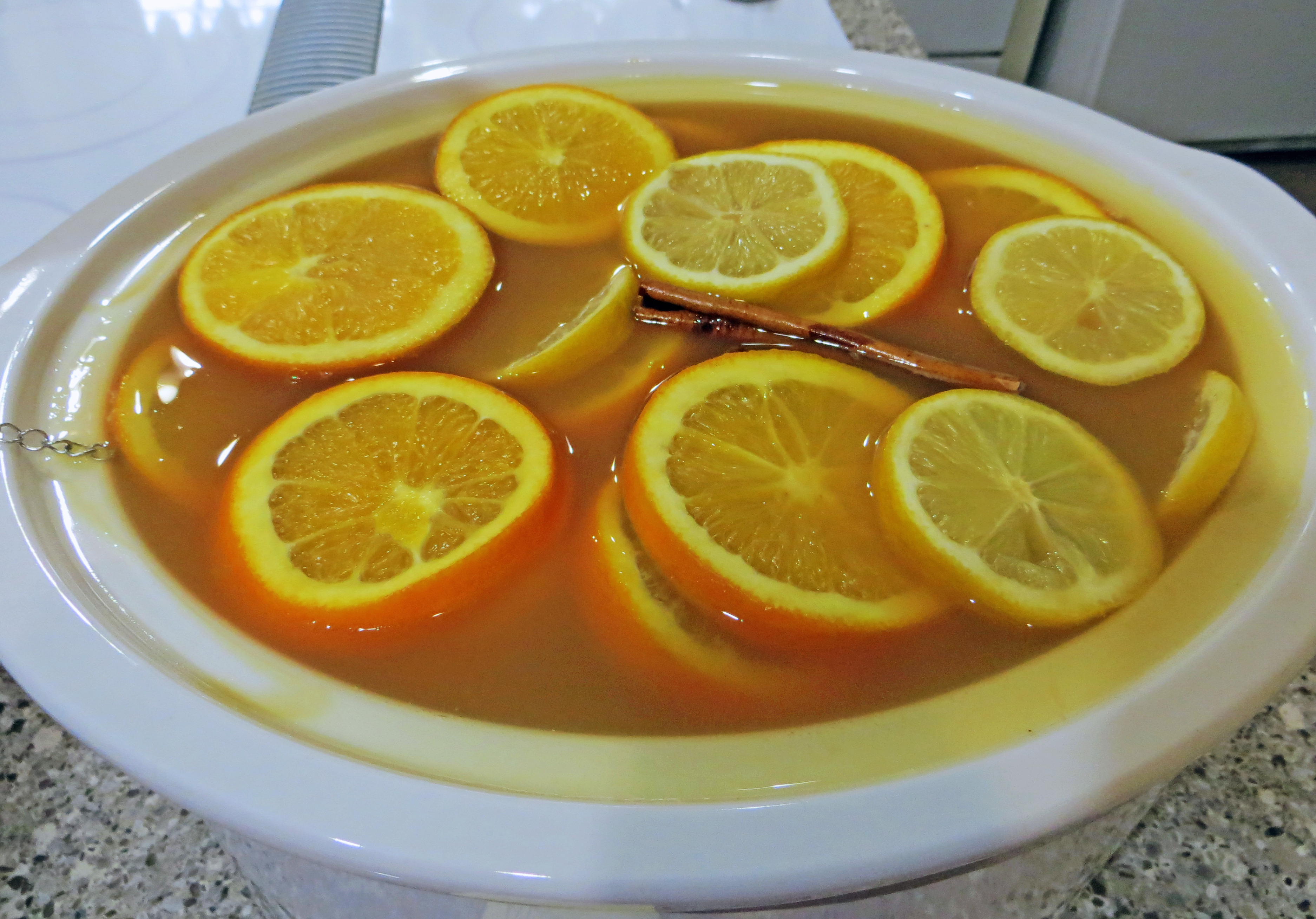 Hot spiced apple cider at a holiday party